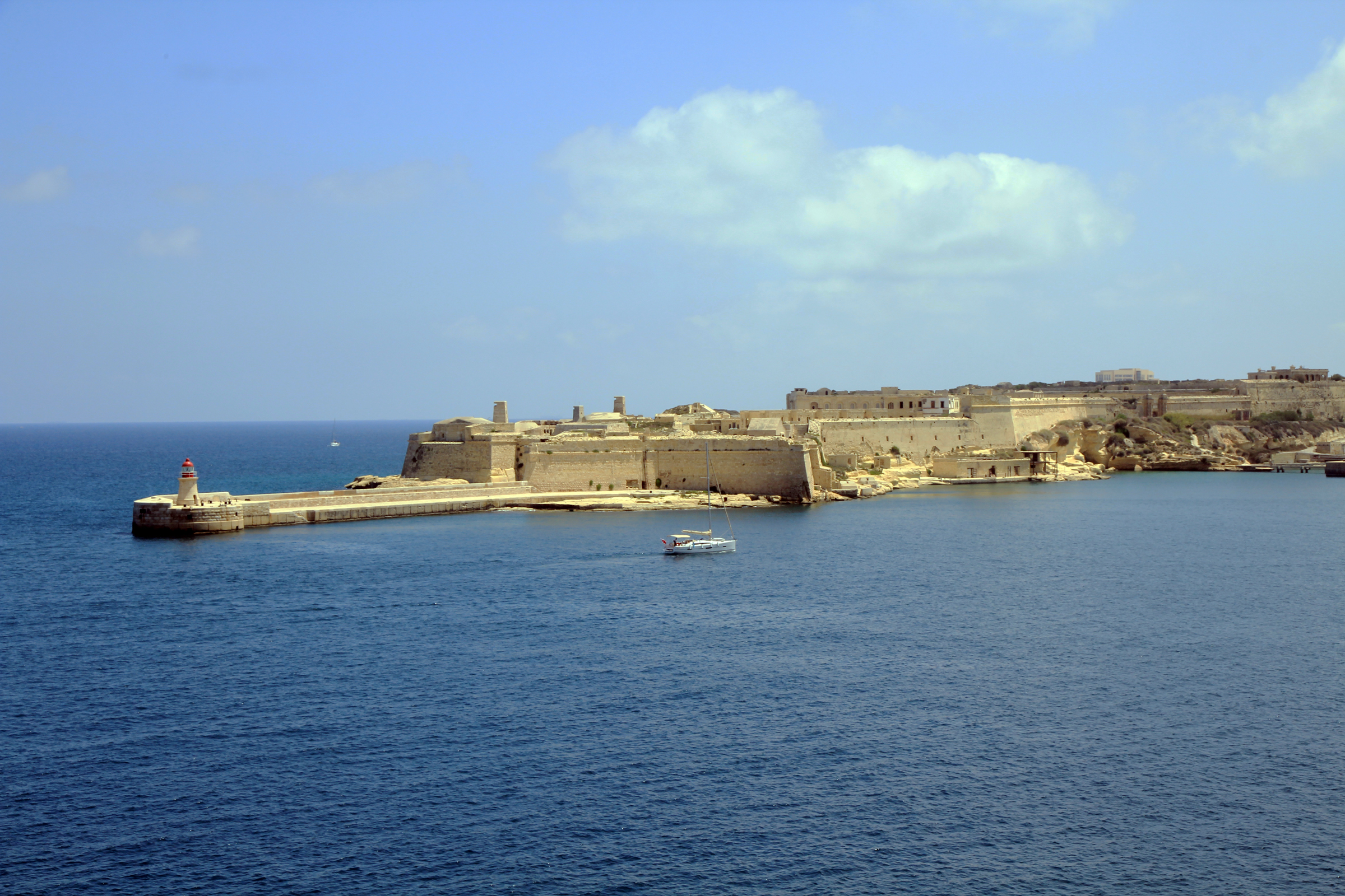 View from city Valletta to the Ricasoli Breakwater built in the entrance into the port, Malta